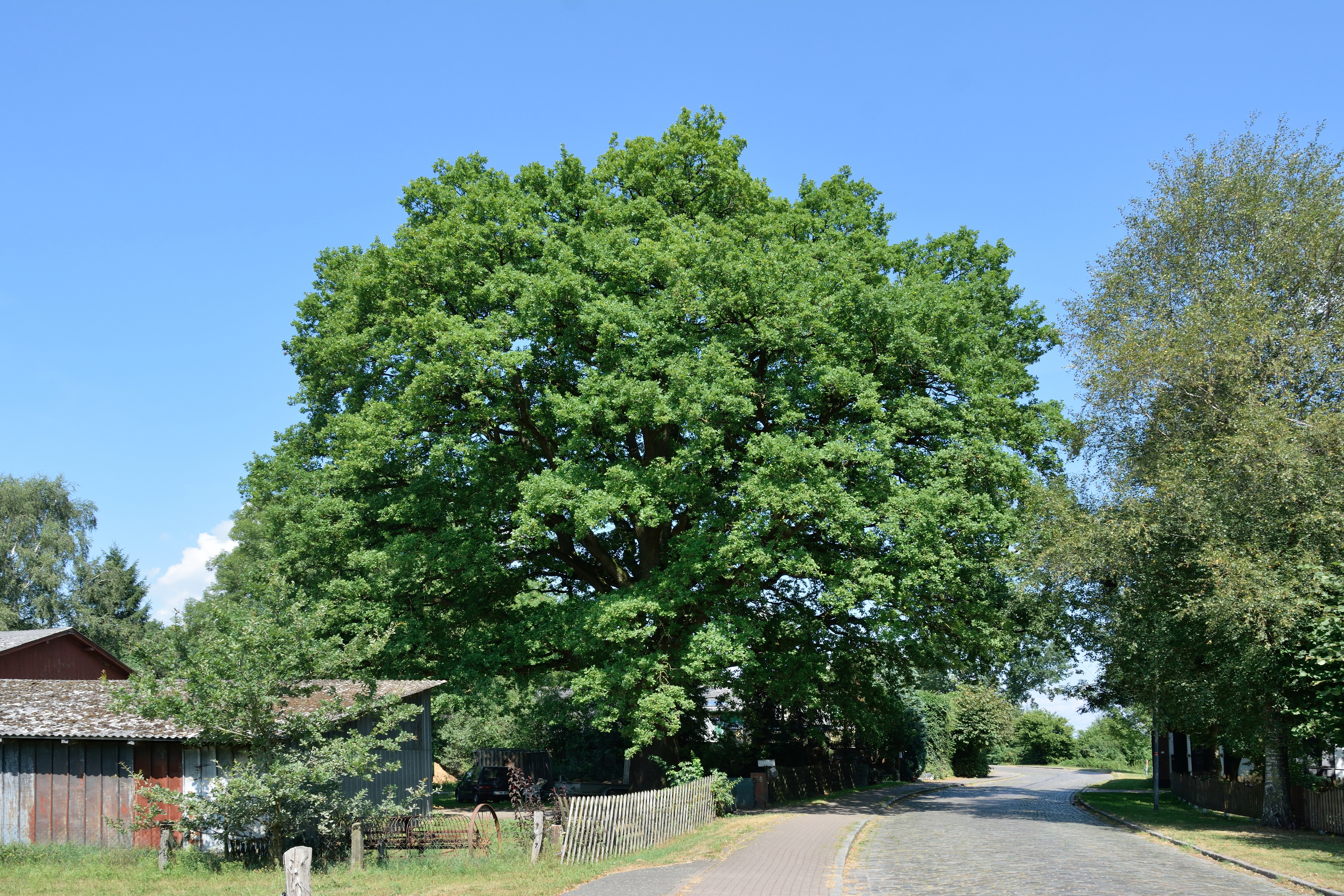 Natural monument (No. 34) in the Steinburg district in Wulfsmoor.